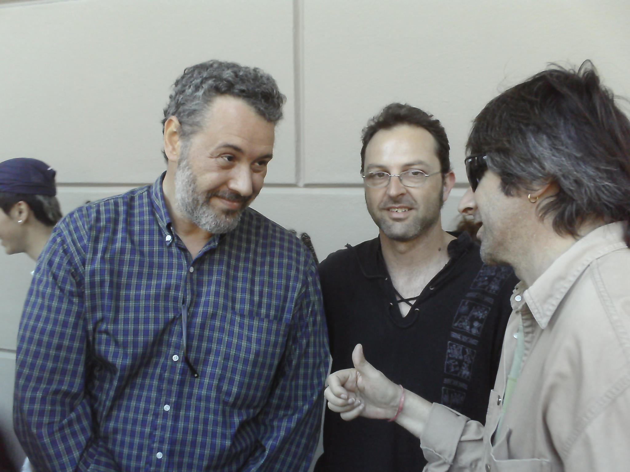 Argentine humorist and scriptwriter Carlos Barragán chatting with people during a commemoration of former president Néstor Kirchner, in Plaza de Mayo.